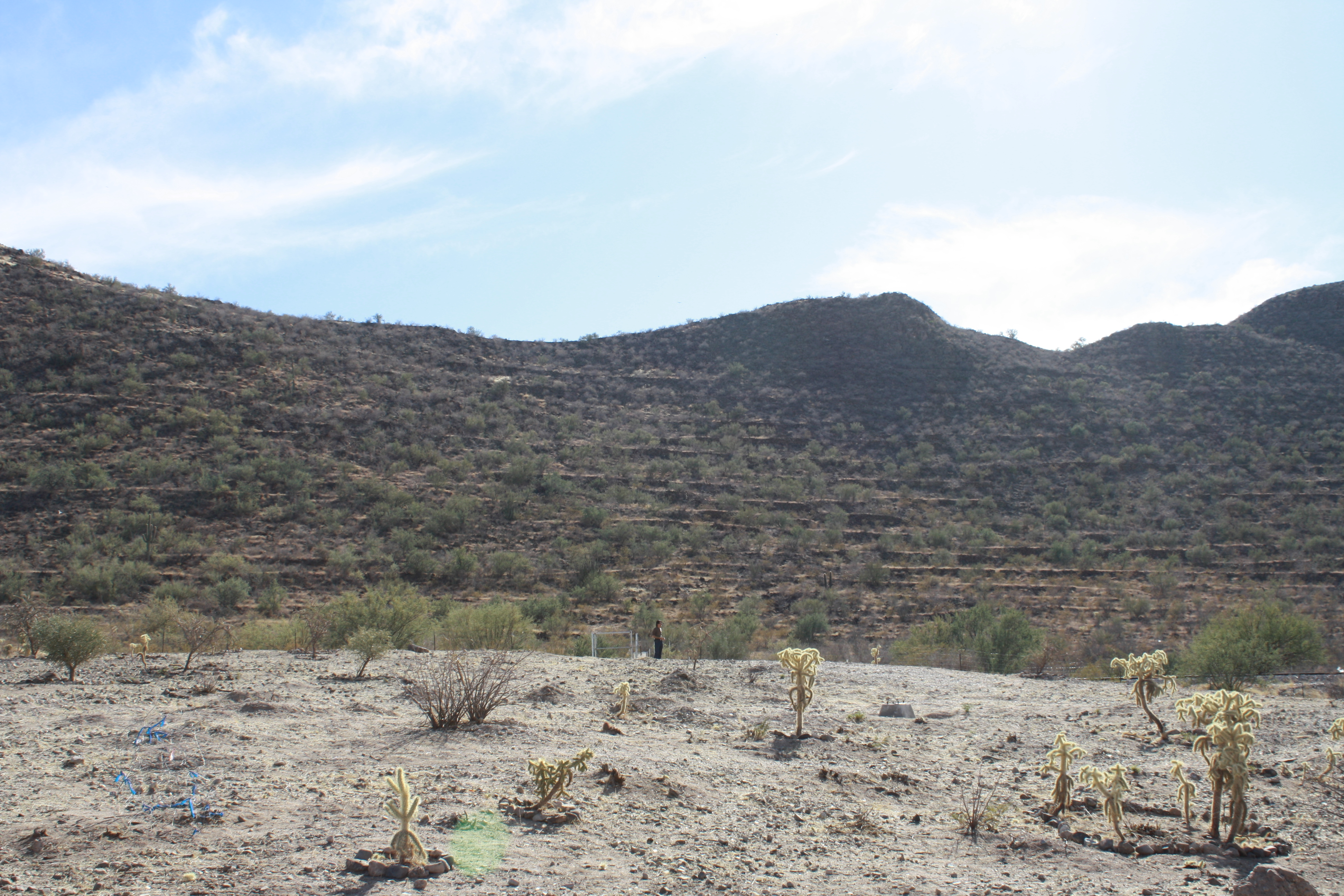 Photos from Cerro de Trincheras in Sonora, Mexico